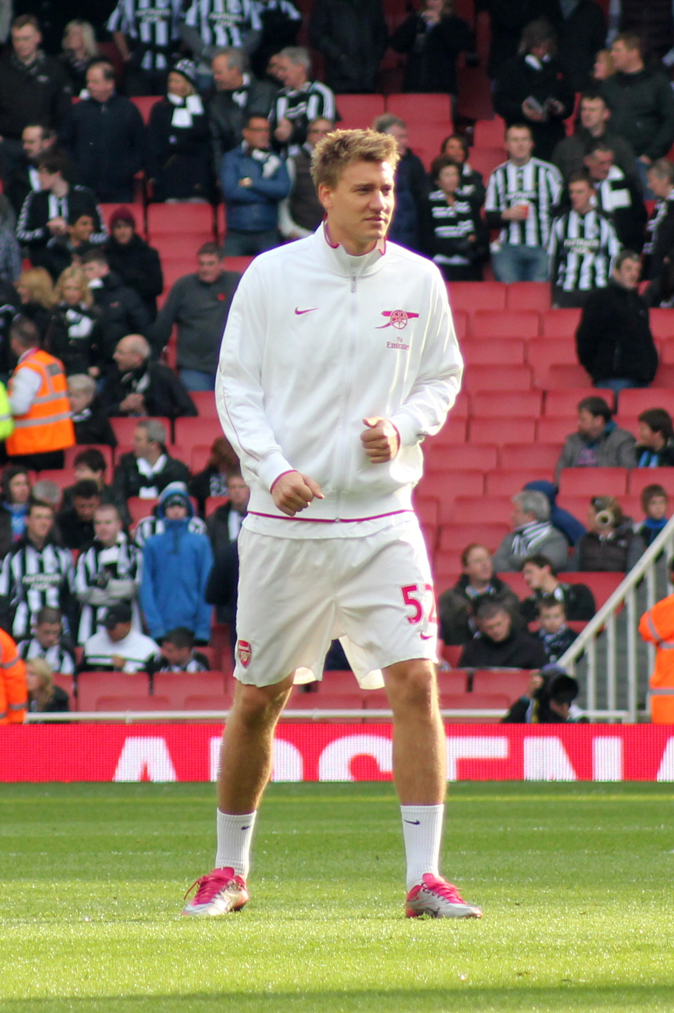 Nicklas Bendtner warming up for Arsenal for a home game against Newcastle.